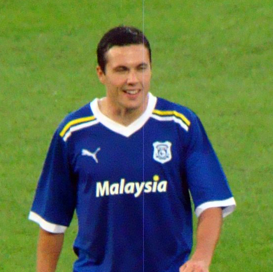 Don Cowie